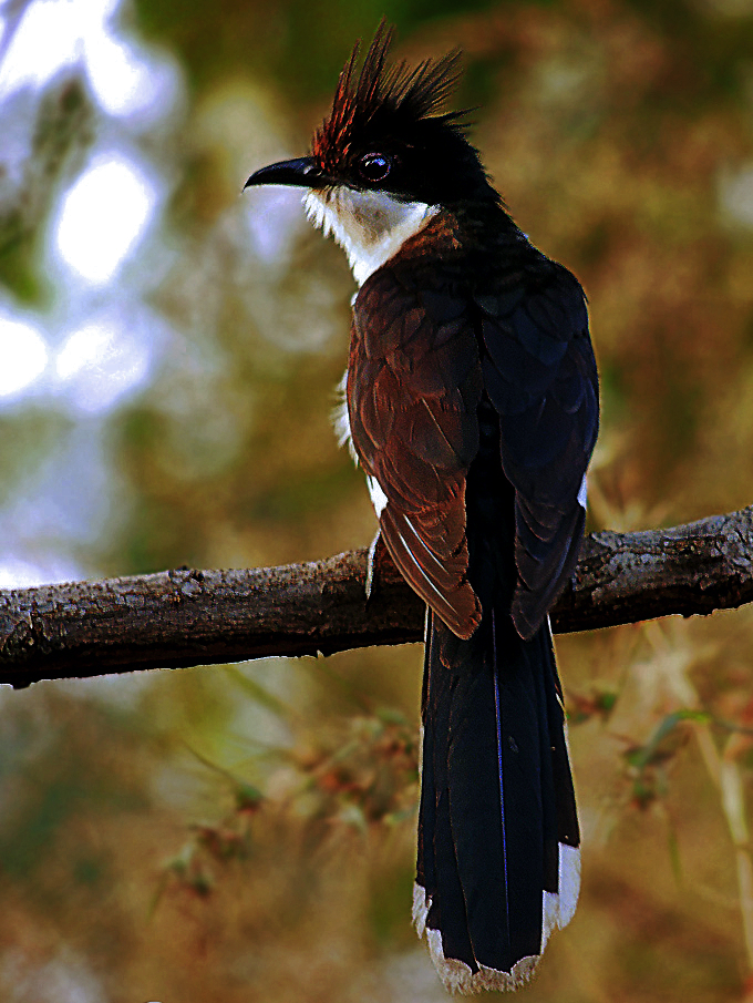 Jacobin Cuckoo (Clamator jacobinus) Photographed In Mangaon, Raigad, Maharashtra